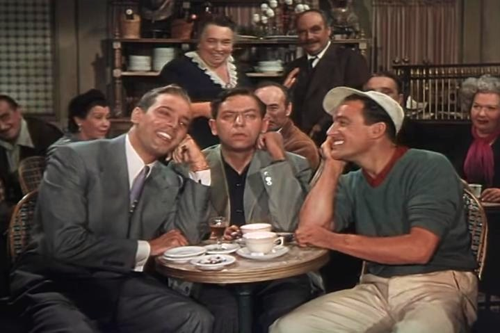 L. to R. : Georges Guétary, Oscar Levant & Gene Kelly in An American in Paris - trailer (cropped screenshot)